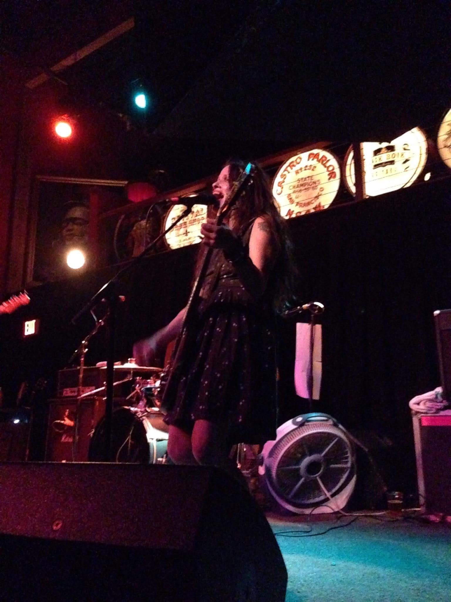 Kat Bjelland performing in Portland, October, 2015